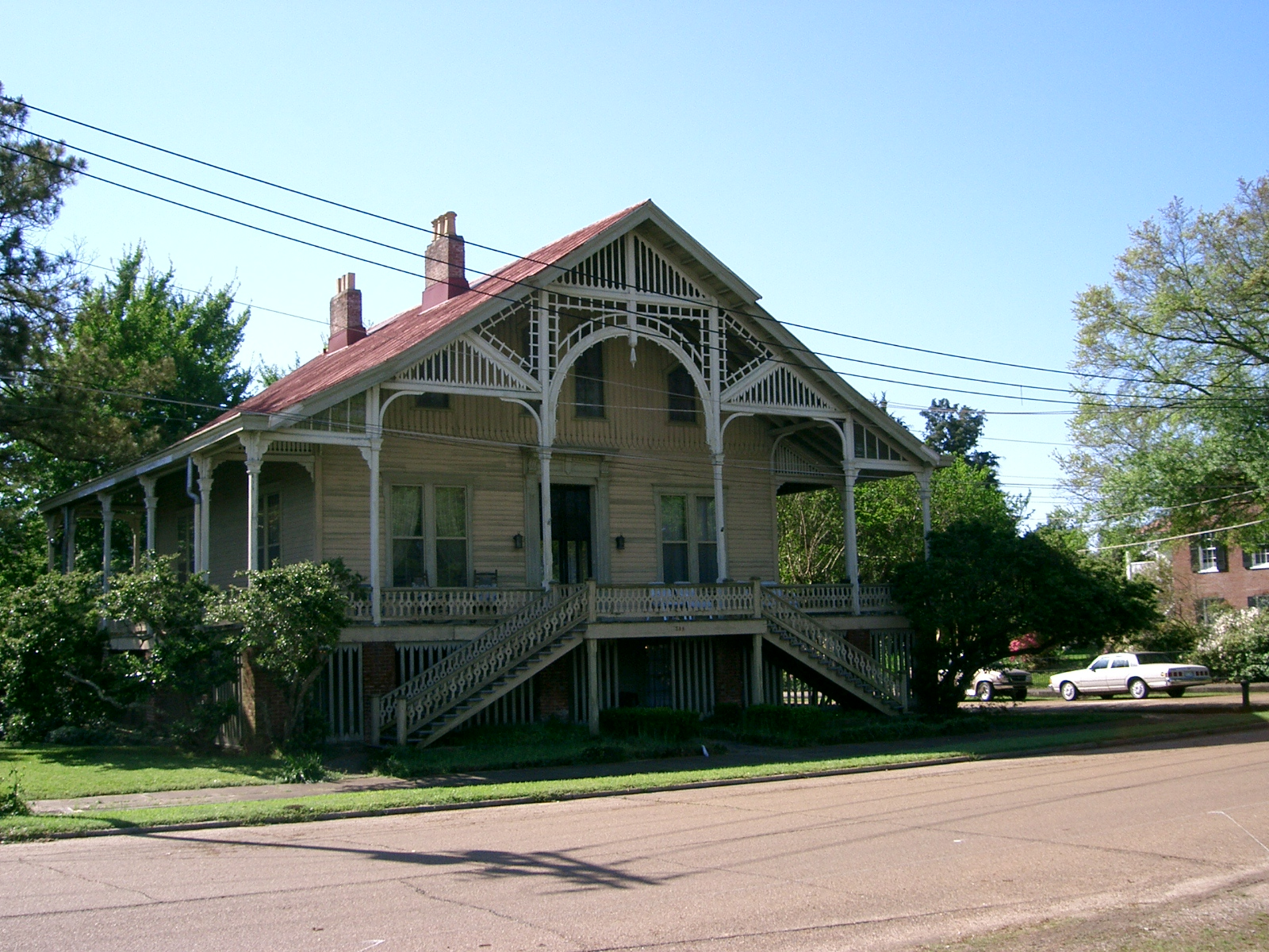 Historical House at Natchez Mississippi self made PRA